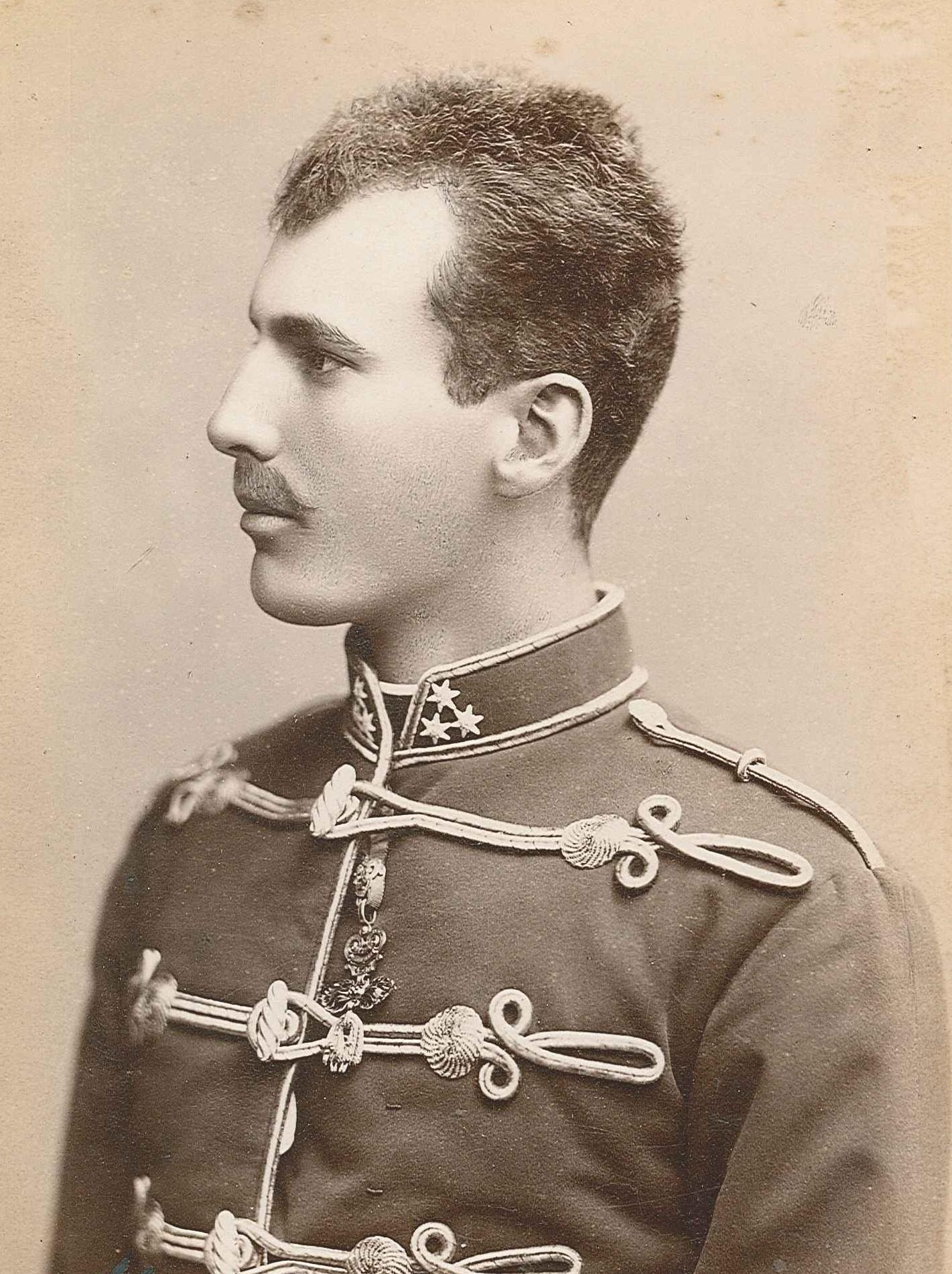 Archduke Eugen Ferdinand Pius Bernhard Felix Maria of Austria-Teschen (1863-1954)